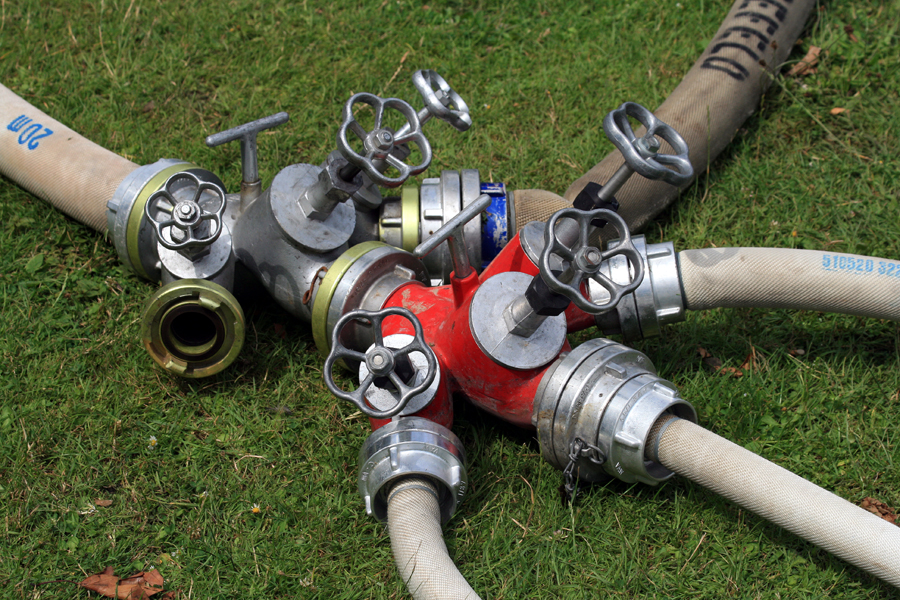 Storz hose splitter/connector being fed by two 65mm hose into three 38mm hose. An unused Storz coupling is visible. The middle 38mm hose on the red splitter/connector is using a step-down ring from 65mm to 38mm.